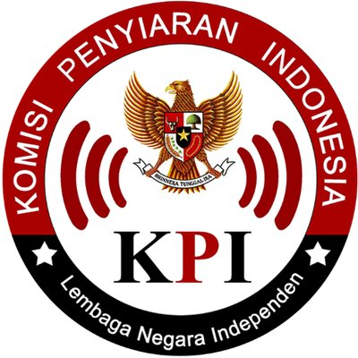 The logo of the Indonesian Broadcasting Commission